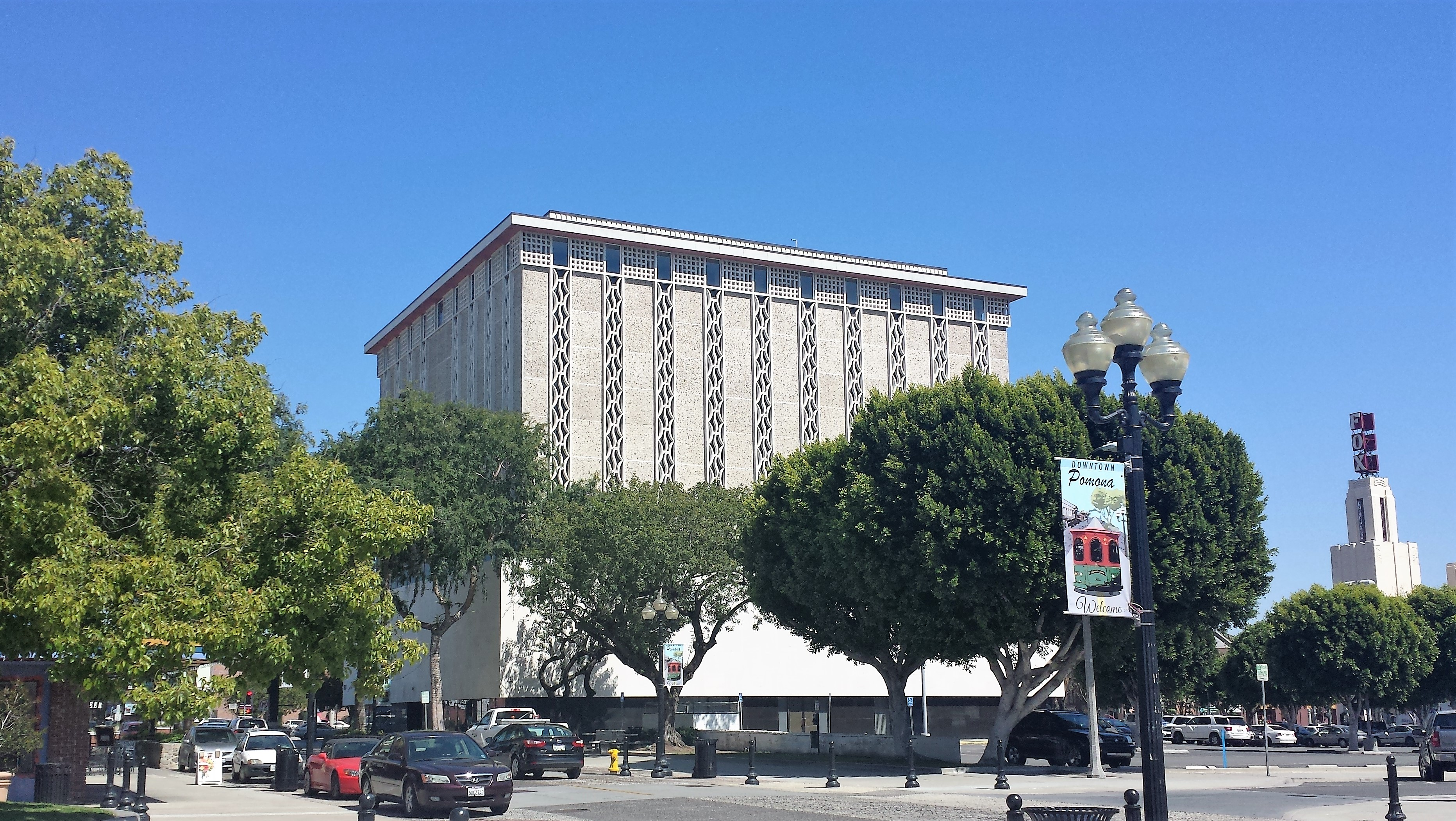 This shows the Anderson Tower at Western University of Health Sciences in Pomona, California. The historic Fox Theater is seen to the right.